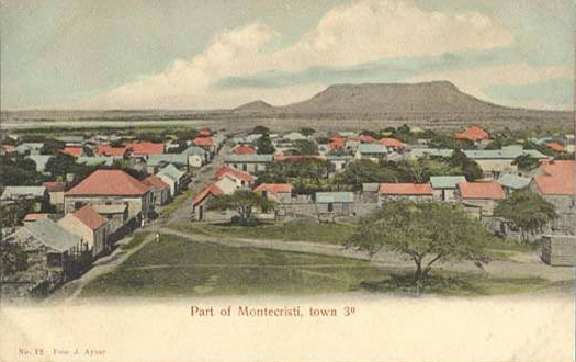 Town of Montecristi in 1900s